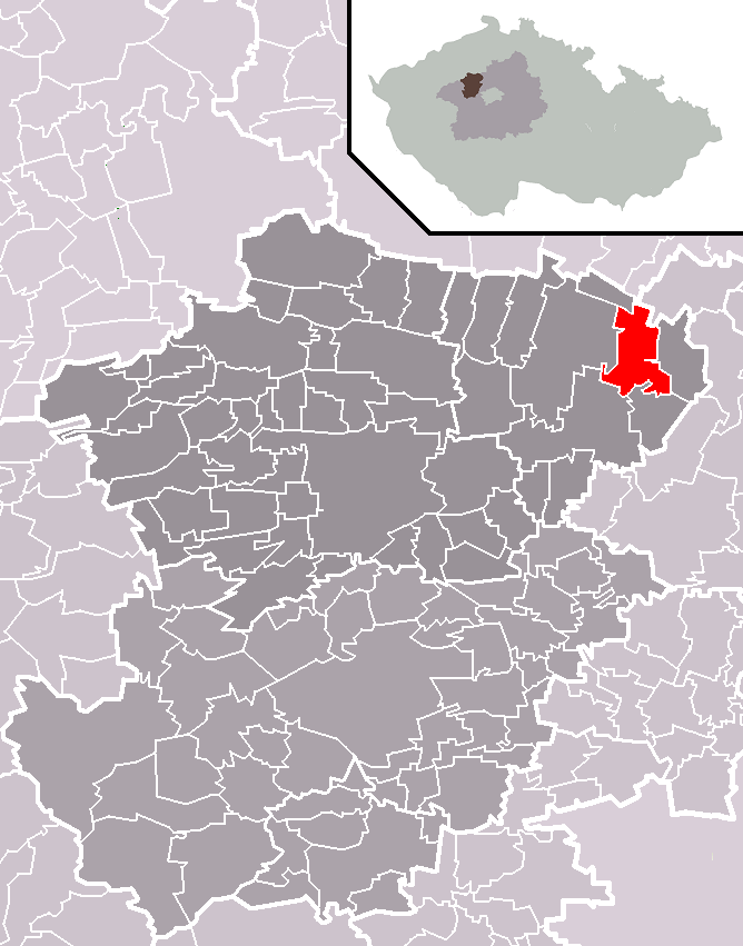 Location of Chržín municipality within Kladno District and administrative area of Slaný as a Municipality with Extended Competence.